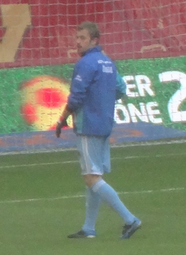 Mert vs GS